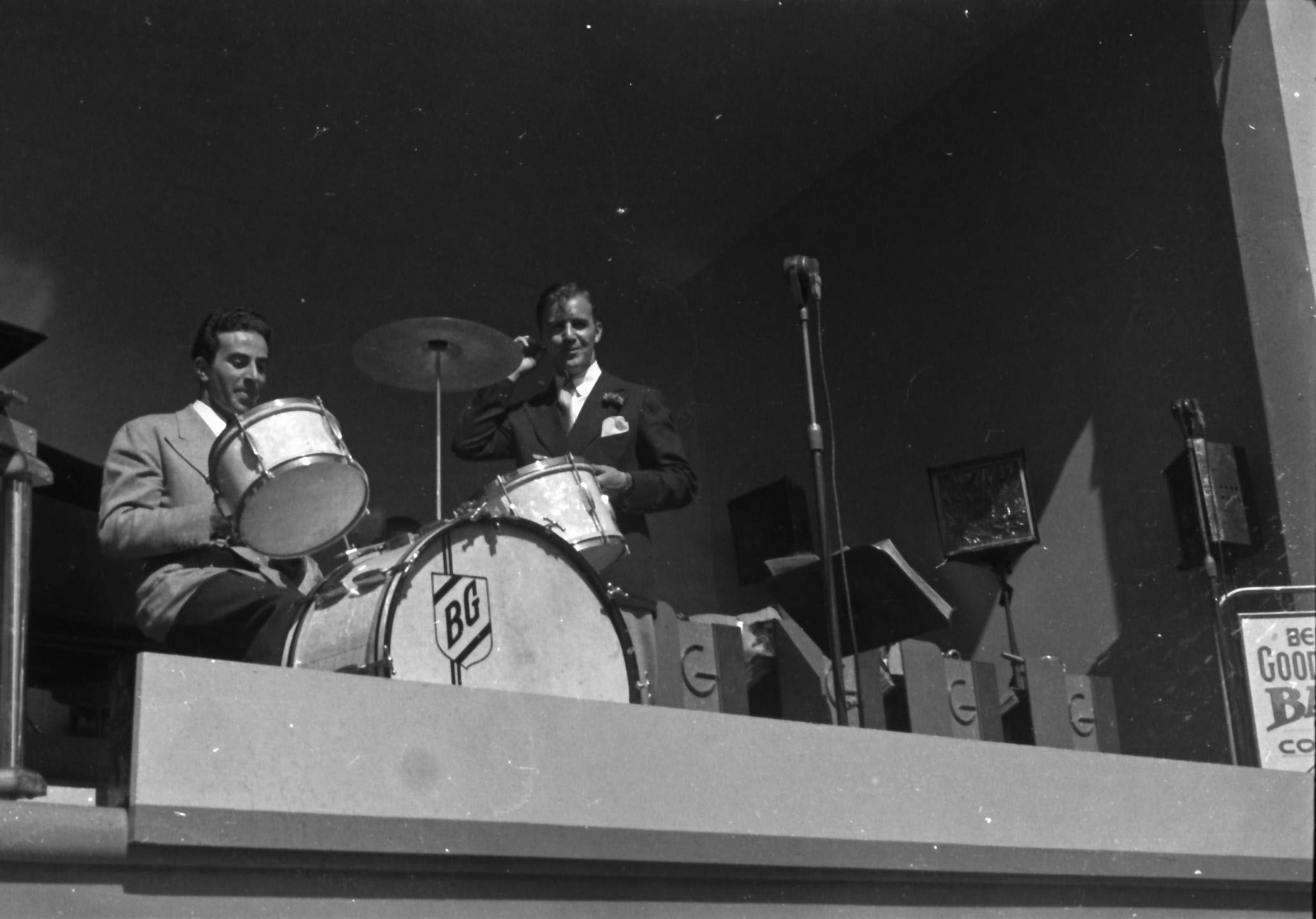 Gene Krupa and Benny Goodman performing at an outdoor concert by the Benny Goodman Orchestra ca.1939 in the Bay Area, photographed by Joseph Park Biehl